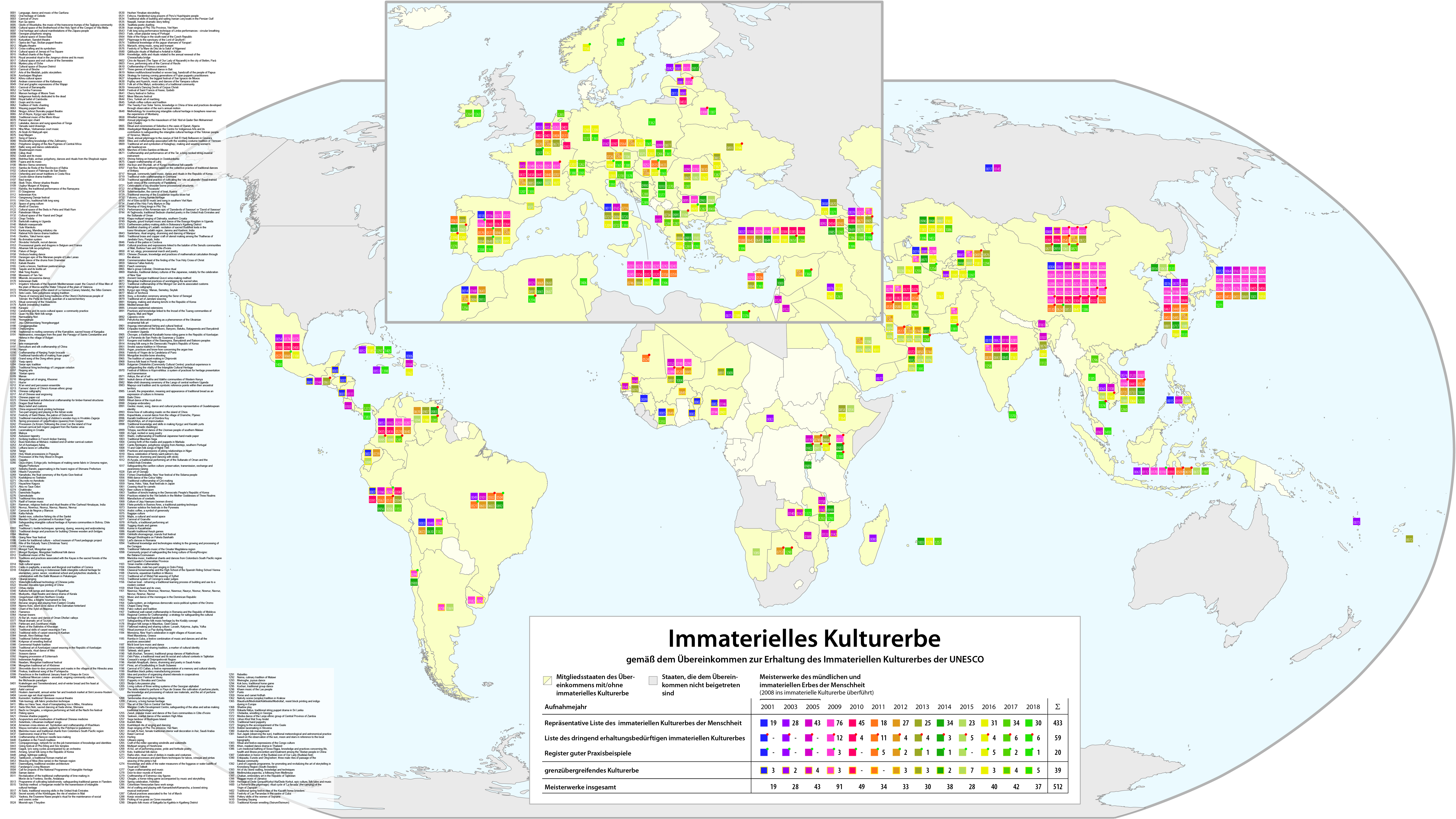 Distribution map of UNESCO intangible cultural heritage